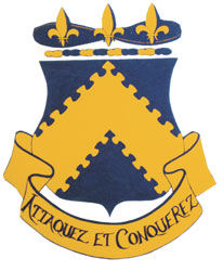 Emblem of the 8th Fighter Group (World War II)